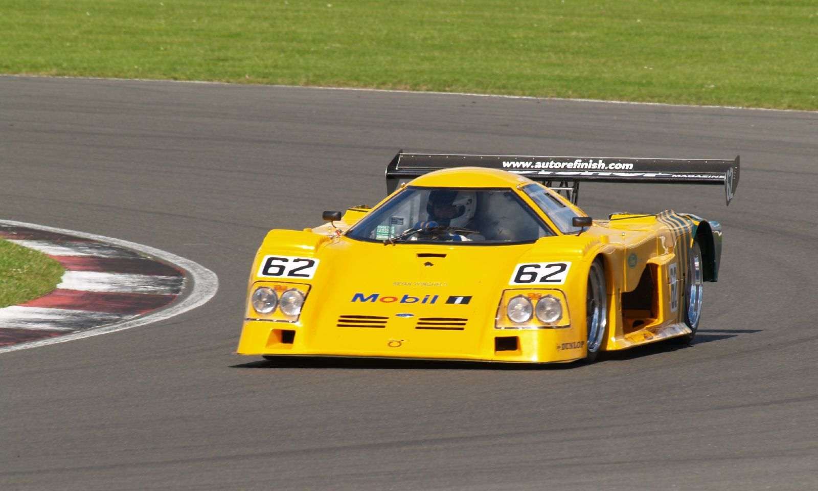 A Ford (Zakspeed) C100 at the Silverstone Classic